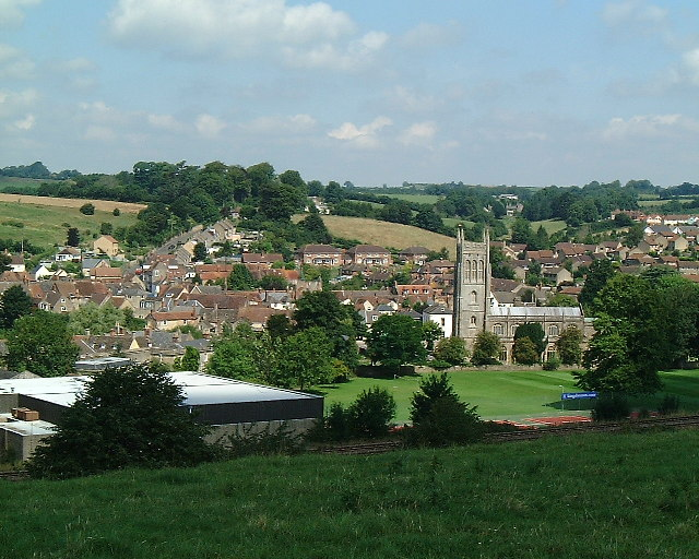 Bruton view from the Dovecote. The church of St Mary's stands out with its grand tower. The London to Penzance railway line cuts through past the town just below the hill out of view.